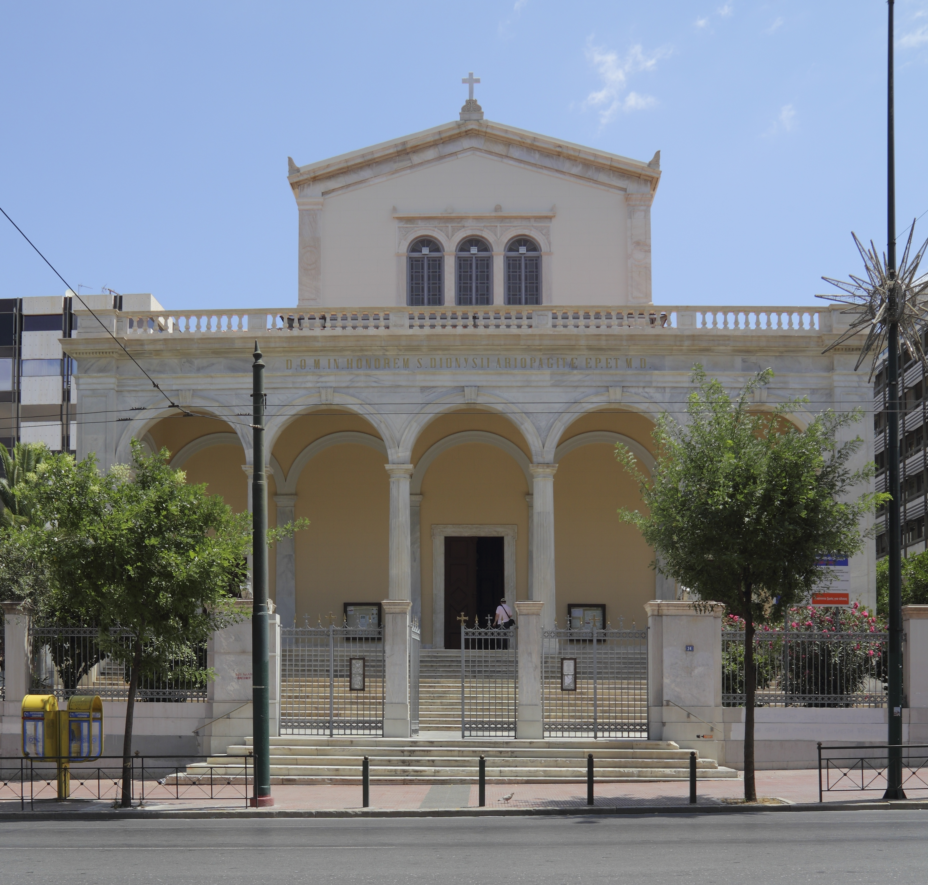 Catholic Church of St. Dionysius in Athens (Attica, Greece)